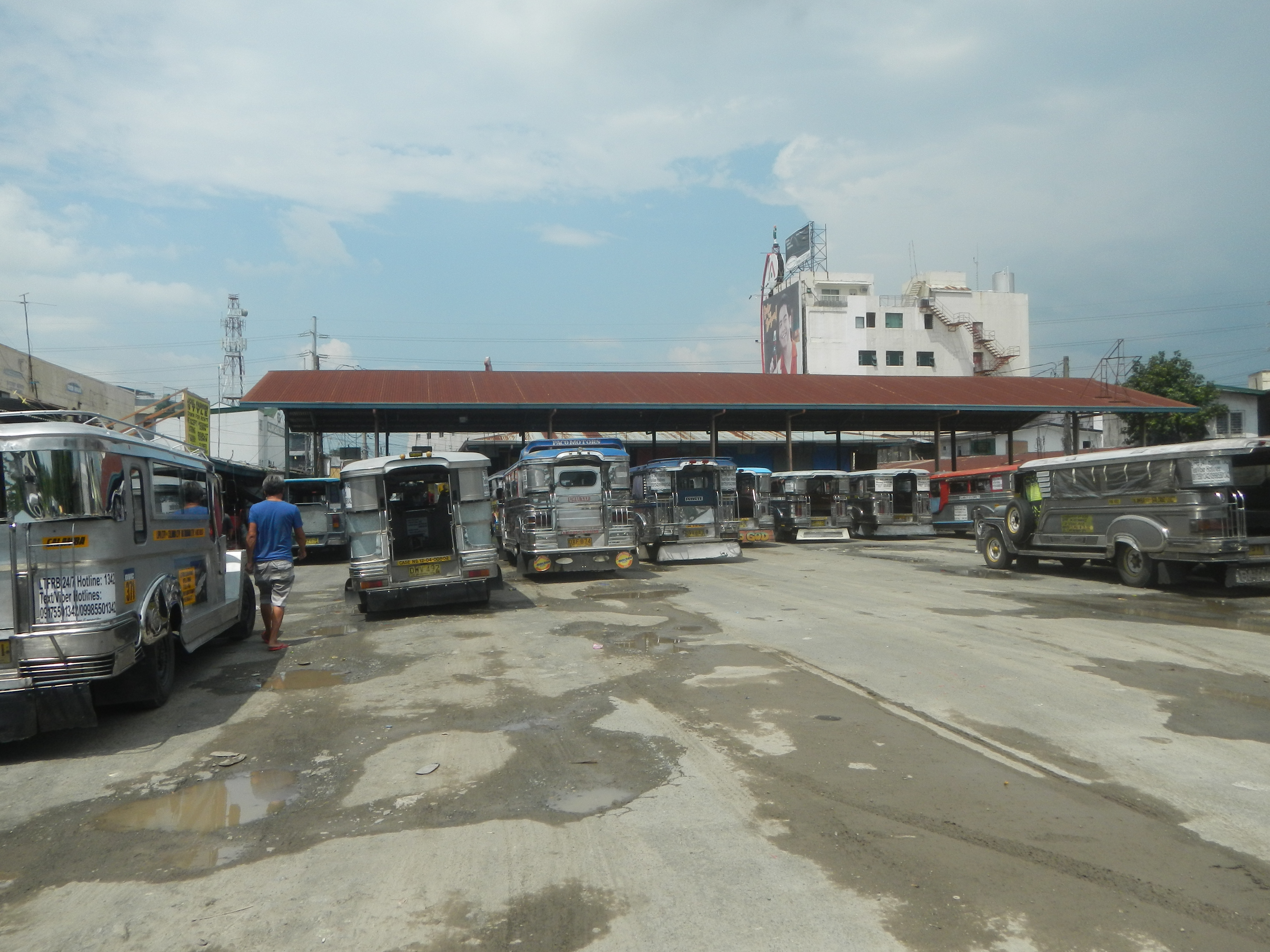 Calamba Central Terminal and Consumer Center to Real Crossing, Calamba, Laguna Calamba Medical Center Barangay Real 14.2016, 121.1517 Real, Calamba, Calamba, Laguna from or along the Philippine highway network Calamba–Pagsanjan Road (Note: Judge Florentino Floro, the owner, to repeat, Donor Florentino Floro of all these photos hereby donate gratuitously, freely and unconditionally Judge Floro all these photos to and for Wikimedia Commons, exclusively, for public use of the public domain, and again without any condition whatsoever).